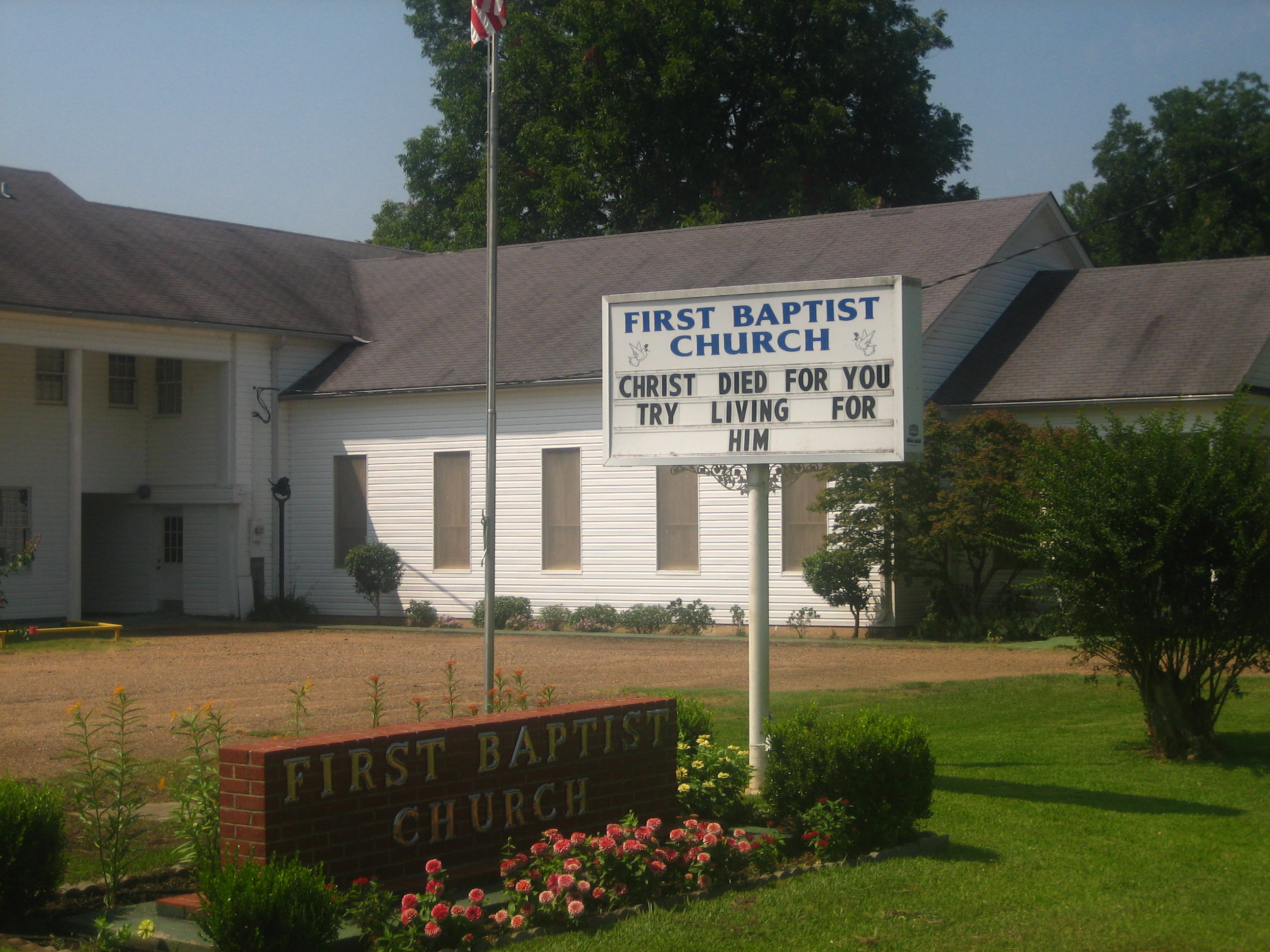 Baptist church, Waterproof, Louisiana Source I took photo on Aug. 2, 2008.Billy Hathorn (talk) 02:24, 16 August 2008 (UTC)